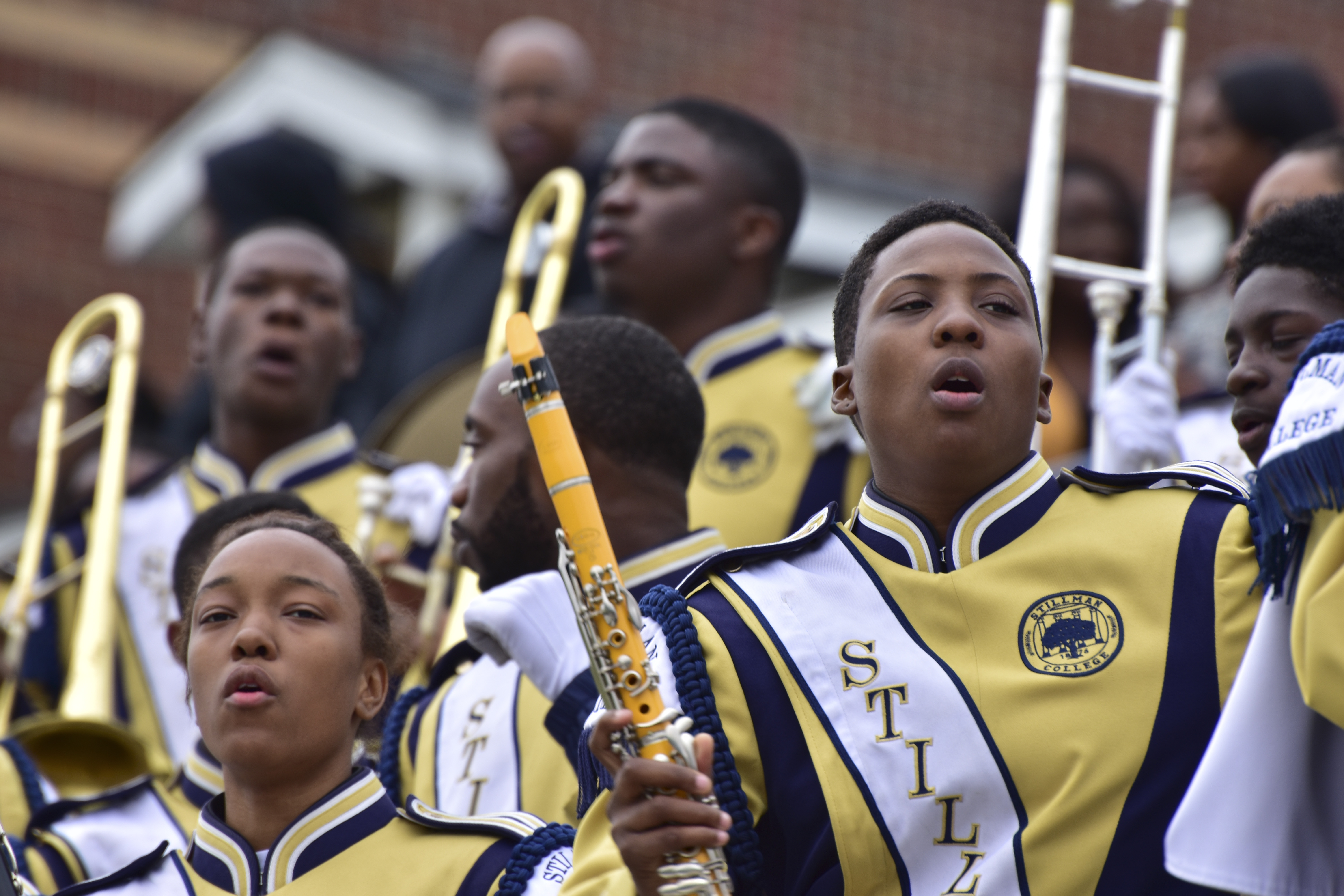 Stillman College Blue Pride Marching Tiger Band - 2015